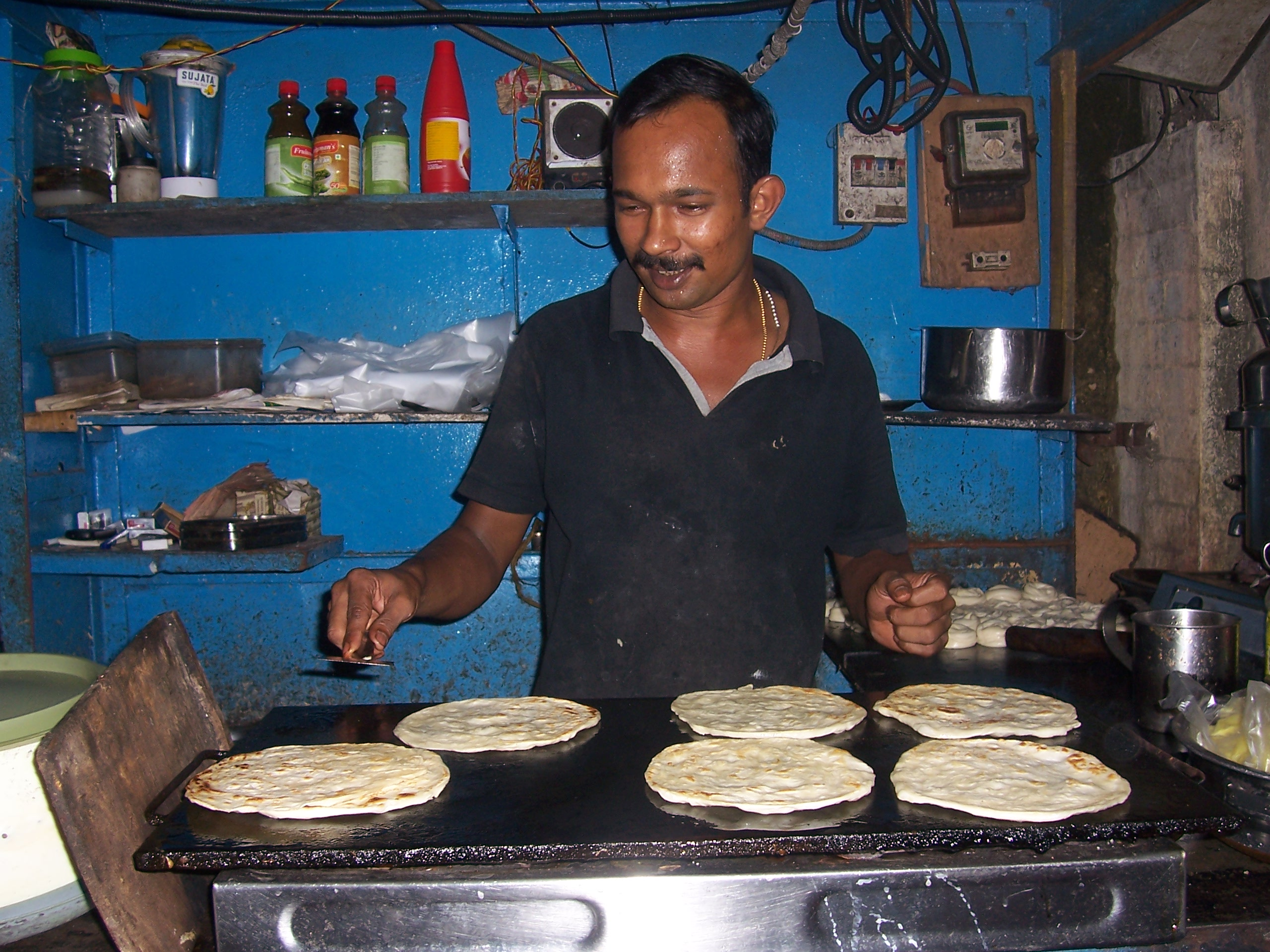 Man who cook parathas (Kochi, India)